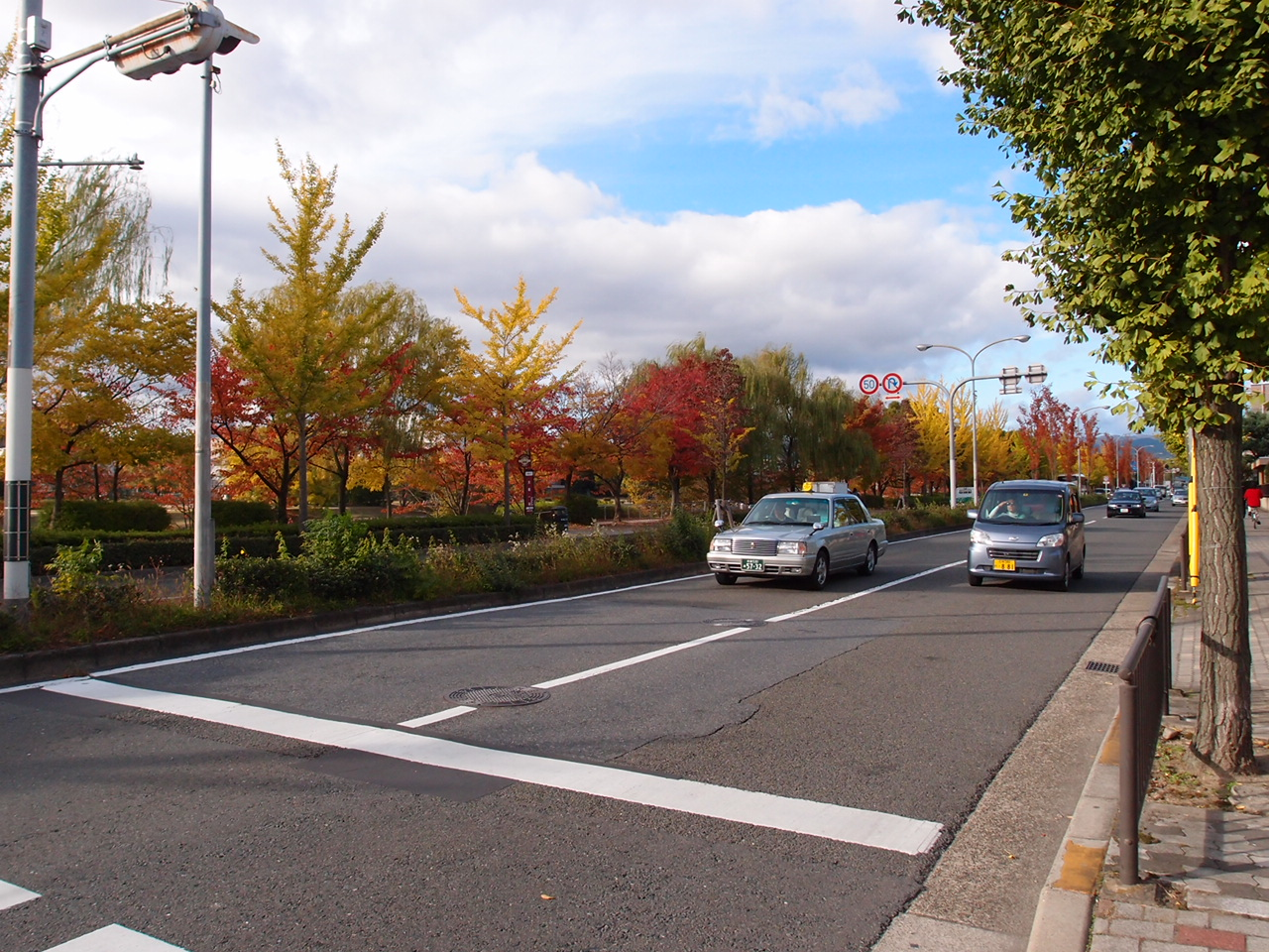 A road beside Kamo River at Kyoto, Japan.